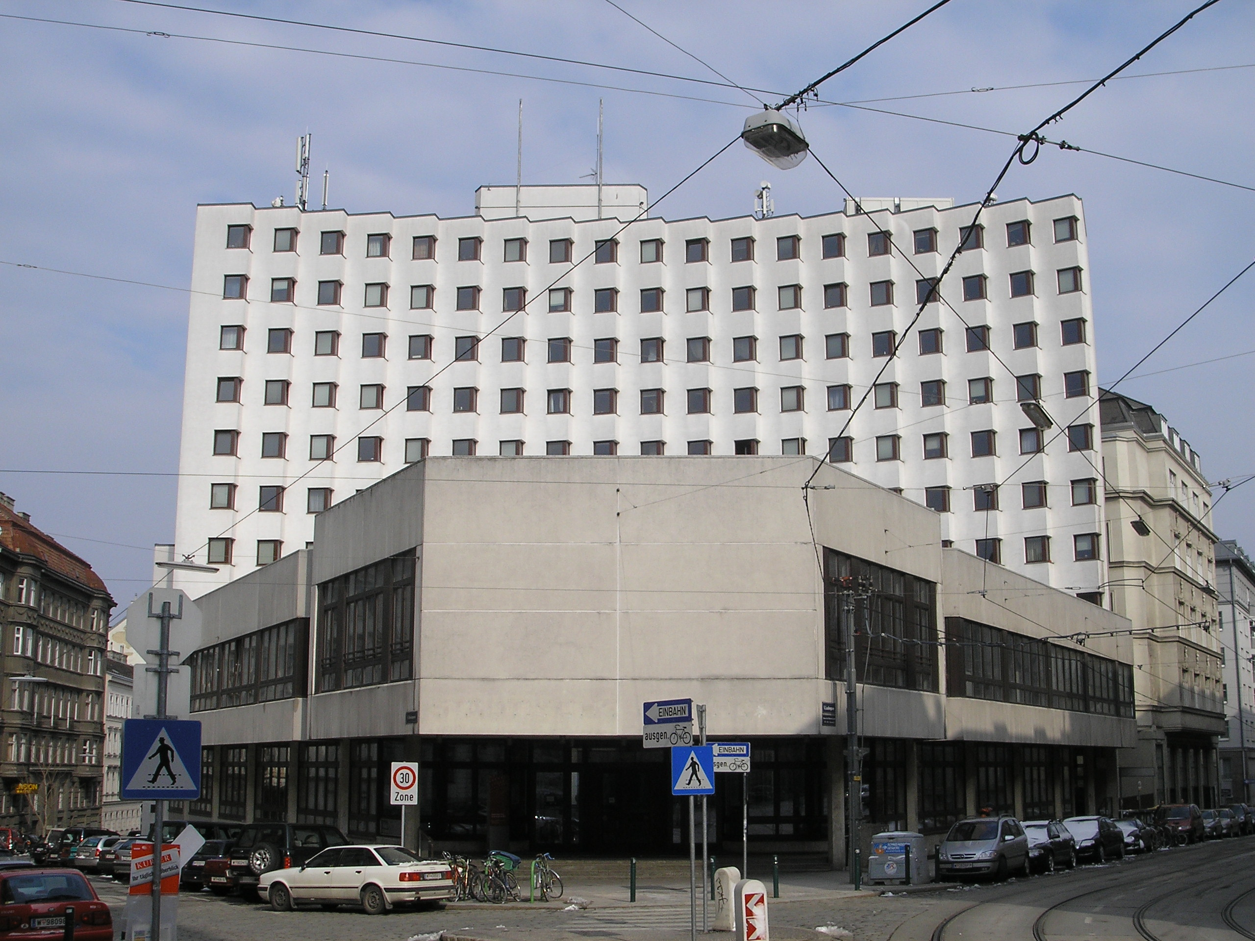 Description: Haus des Buches in Vienna. Source: self-made, I release it into the public domain. Gryffindor 22:40, 23 March 2006 (UTC)